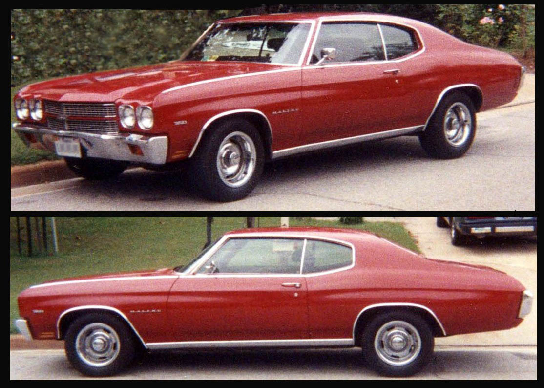 Chevrolet Malibu, early to mid 1970s, 2-door car